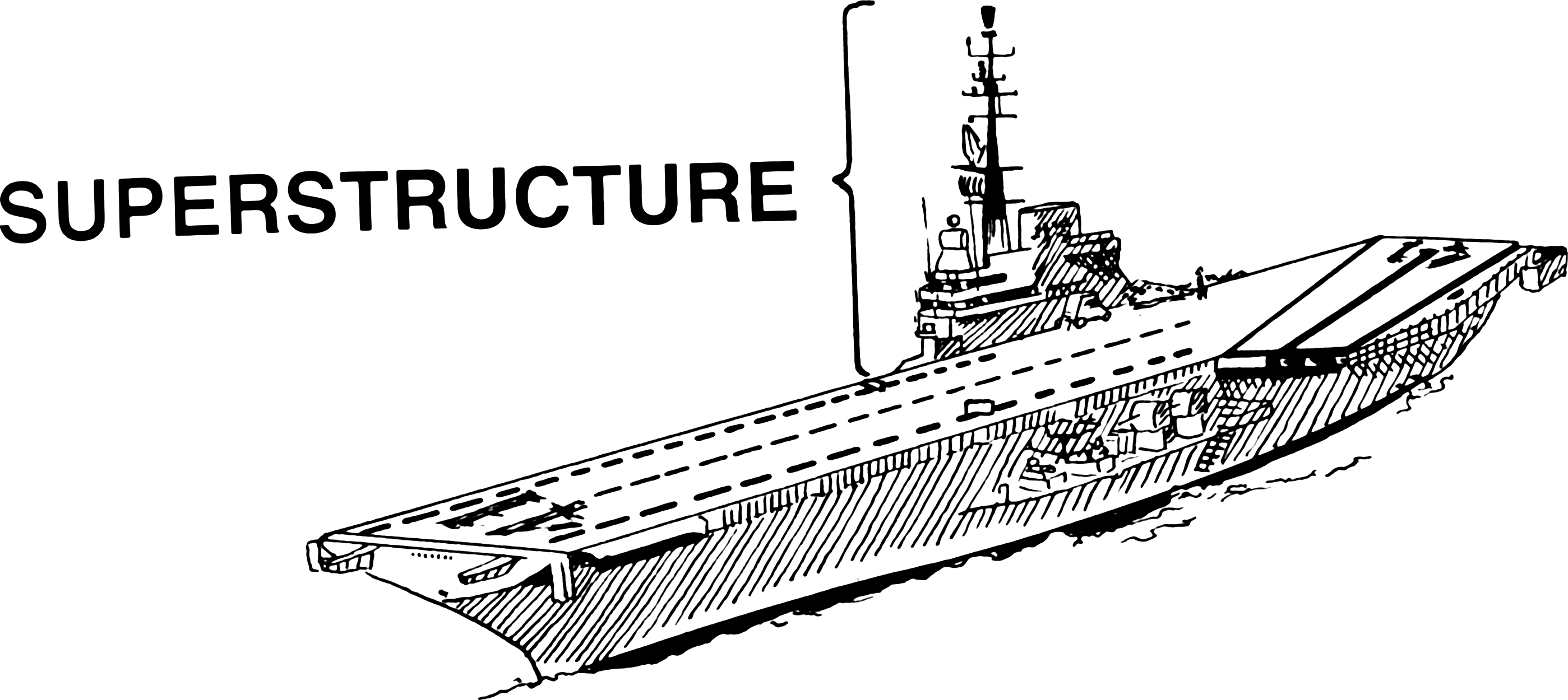 Line art representation of a Superstructure